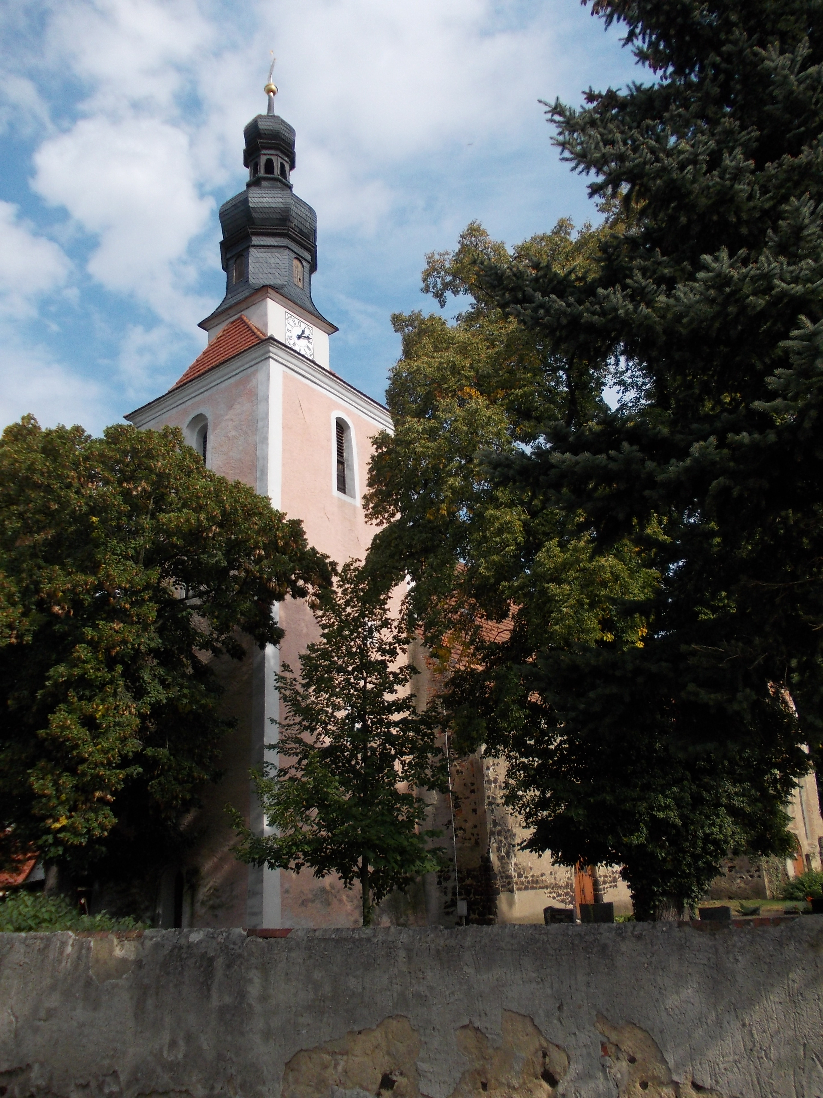 Wahrenbrück church (Uebigau-Wahrenbrück, Elbe-Elster district, Brandenburg)